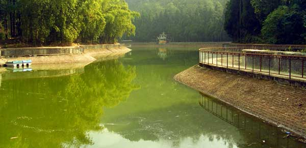 Aritar Lake, Sikkim, India.